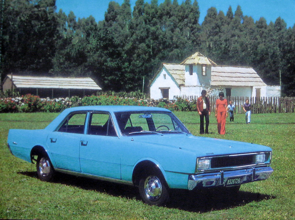 Dodge Polara. Variants of the Argentinean Dodge Polara were assembled in Spain as the Dodge 3700